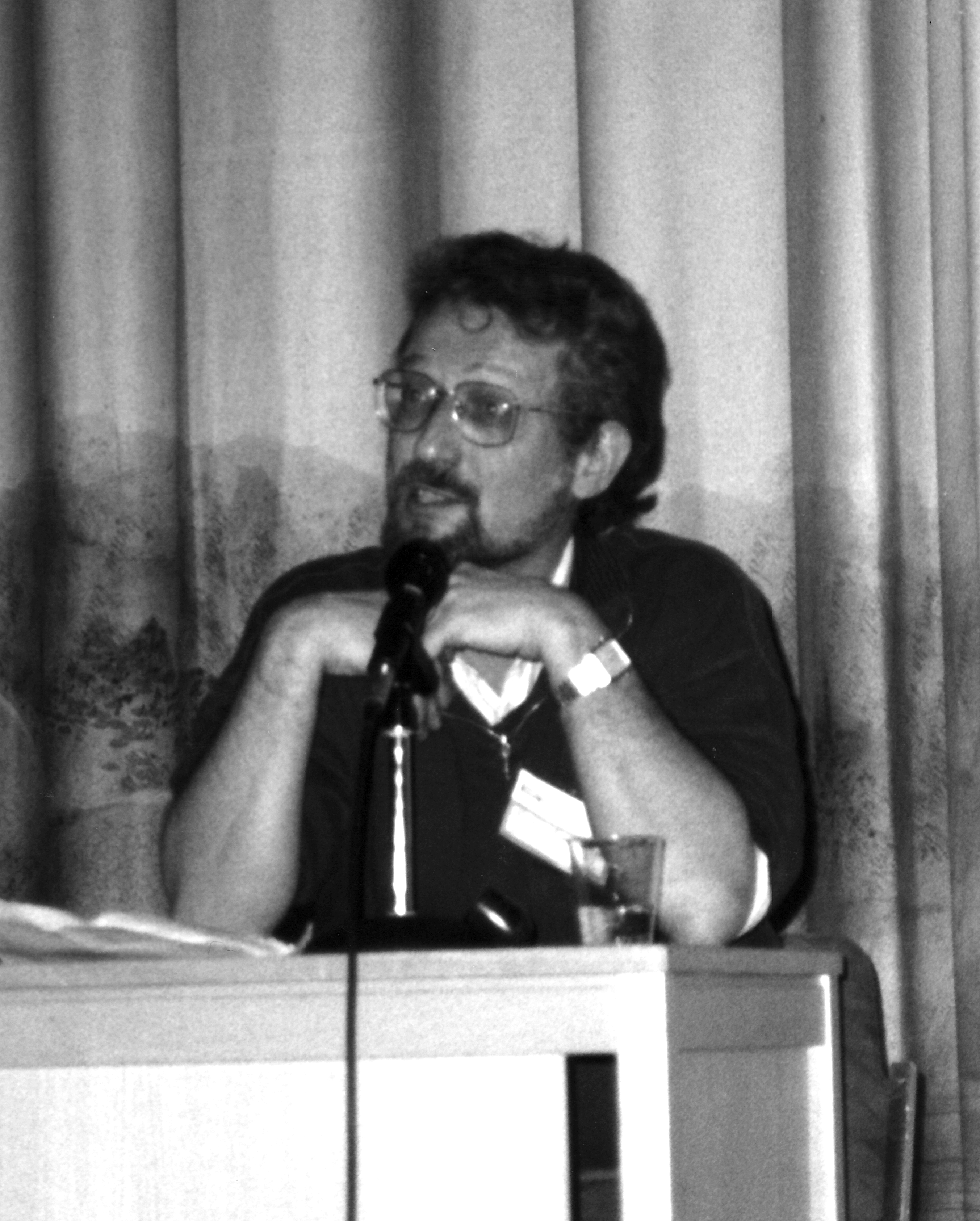 Horst Schröder, Swedish comics publisher, at a panel in Stockholm (January 1991)